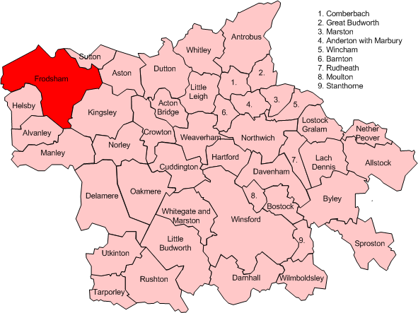 Map of civil parish of Frodsham, Vale Royal, Cheshire